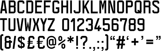 Typefont french license plates